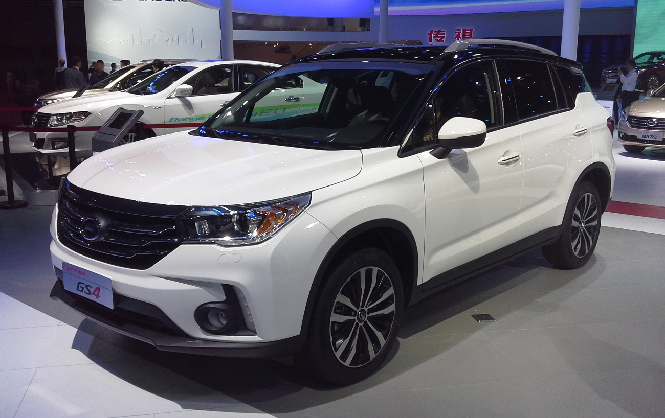 GAC Trumpchi GS4 photographed at the Auto Shanghai 2015, Shanghai, China.